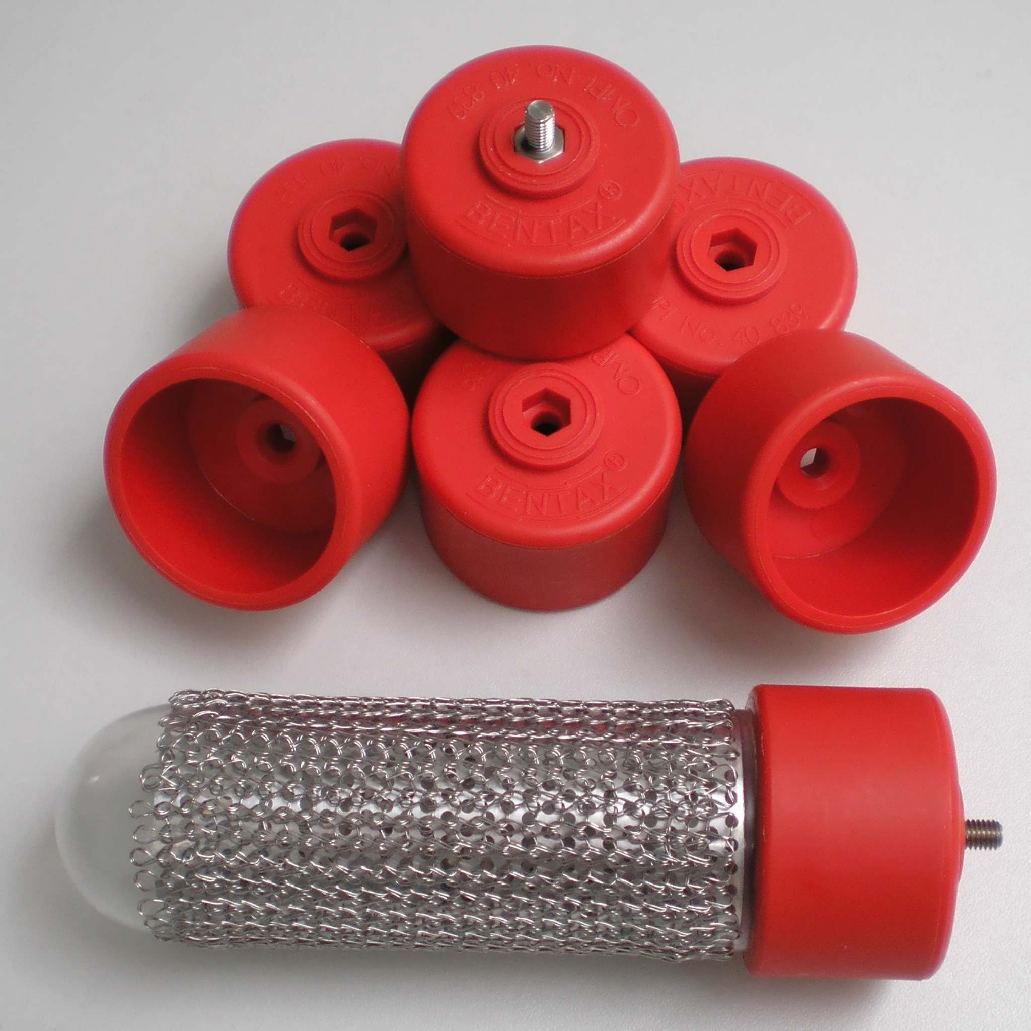 Termination cap made ​​of polypropylene at a ionization tube.